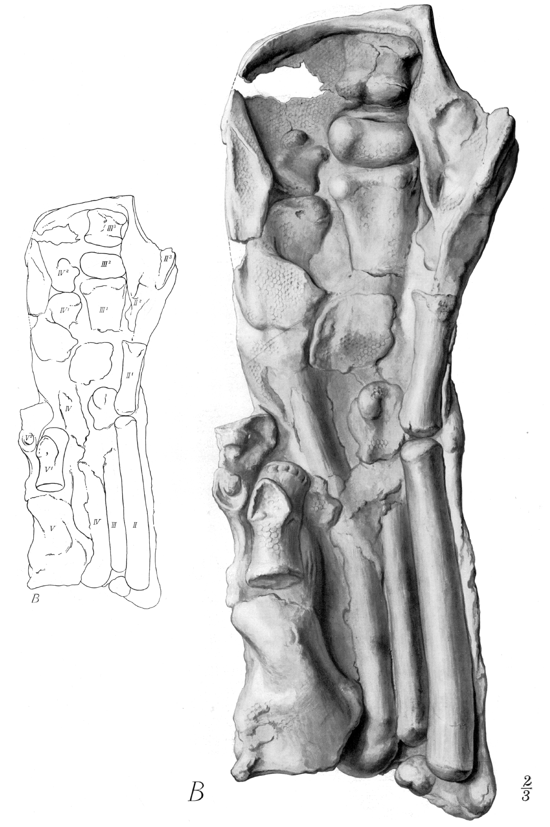 Original description: Plate IX. Palmar surface of the integument of the right manus of the Trachodon annectens "mummy" Amner. Mus. No. 5060, showing the continuous fold of integument extending beyond Mtc. III-IV, also the continuous and evenly distributed small polygonal pavlement scales. Scale 2/3.